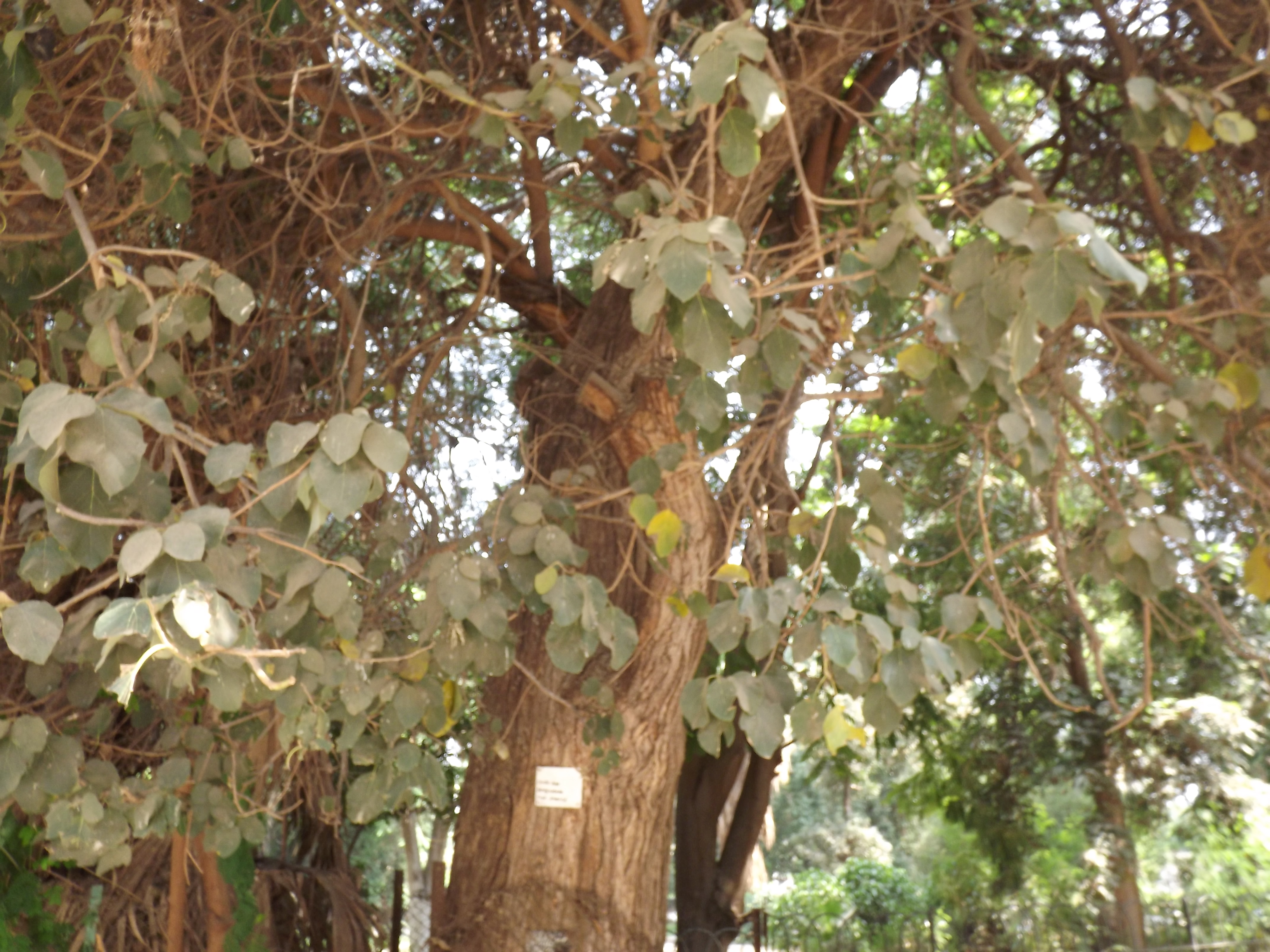 Cordia alba in Giza Zoo